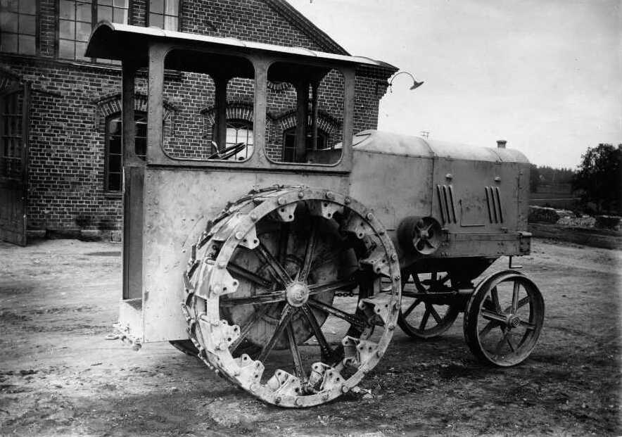 Tidaholms Bruk A.B. built 20 of these tractors in 1919. After testing on farm grounds they were found not suitable. None was sold, and all were scrapped for truck parts in 1923.